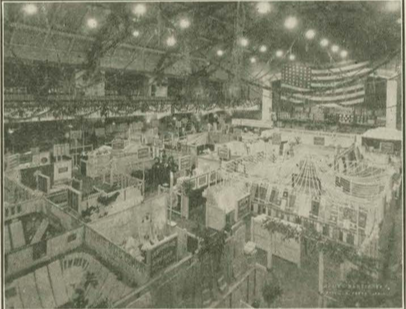 Photograph of textile exhibition, Old Textile Hall, Greenville, South Carolina, 1920